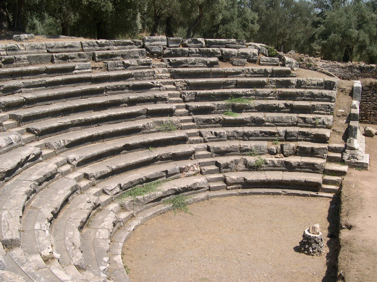 Bouleuterion Nysa, Aydin, Turquie